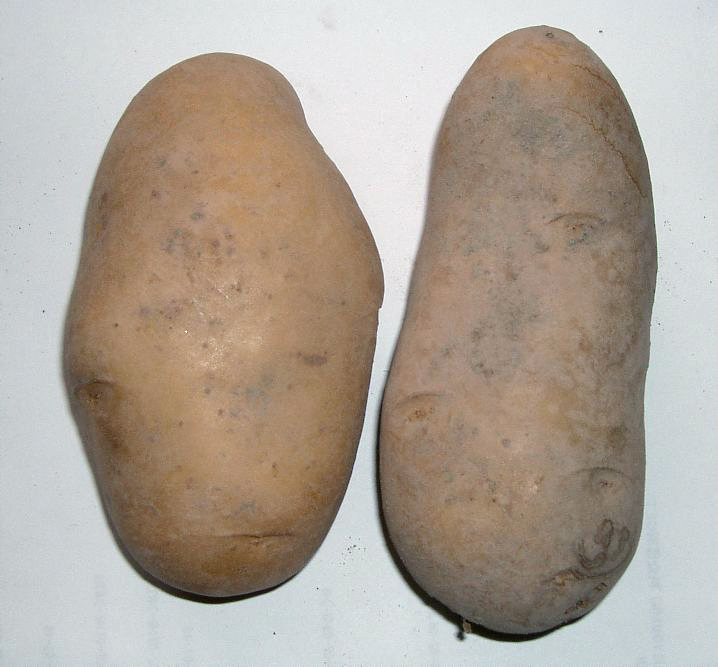 a potato (solanum tuberosum)